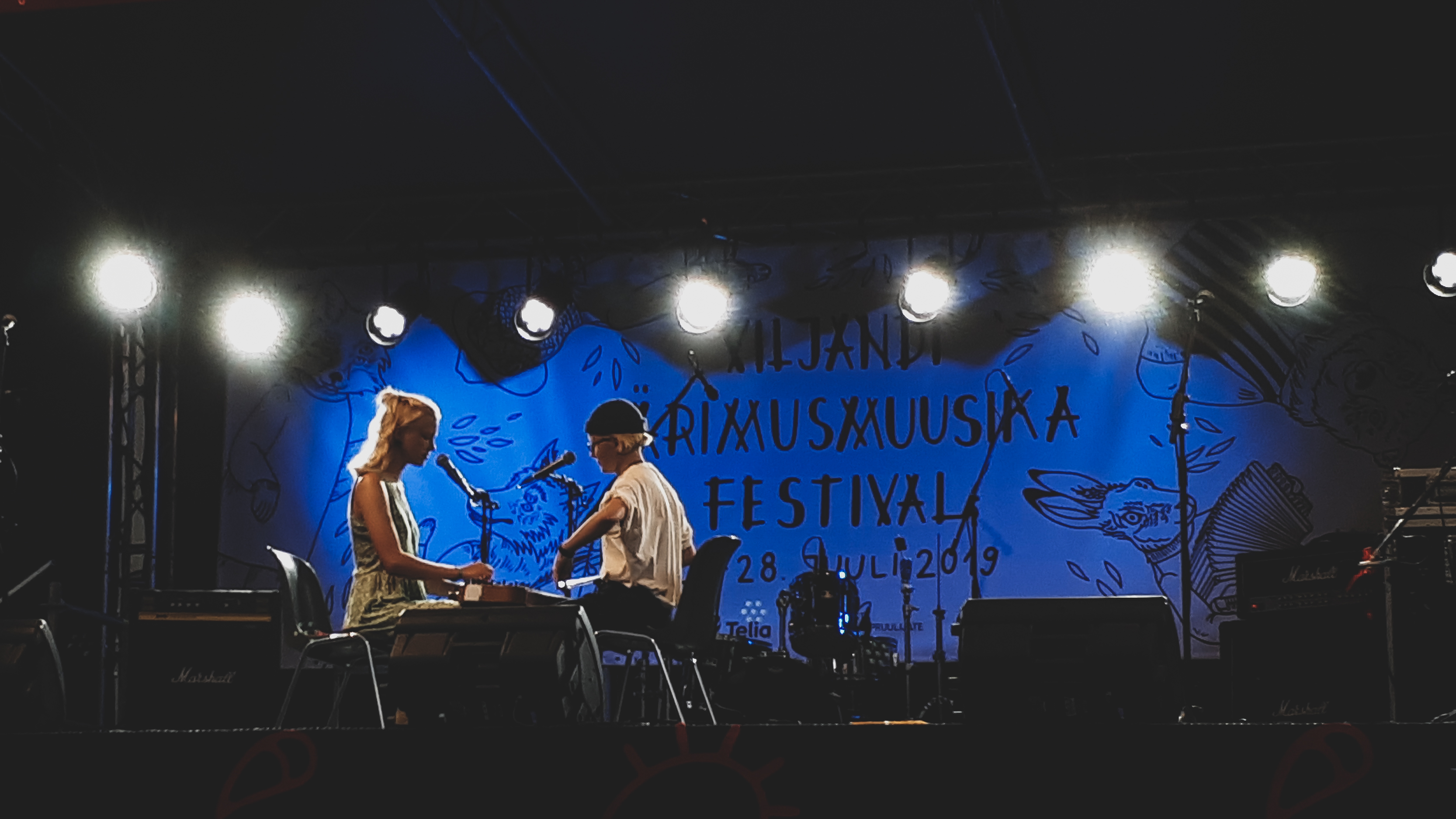 Duo Ruut performing at Viljandi Folk 2019